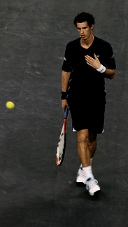 Andy Murray against Roger Federer at the 2008 Tennis Masters Cup (crop)